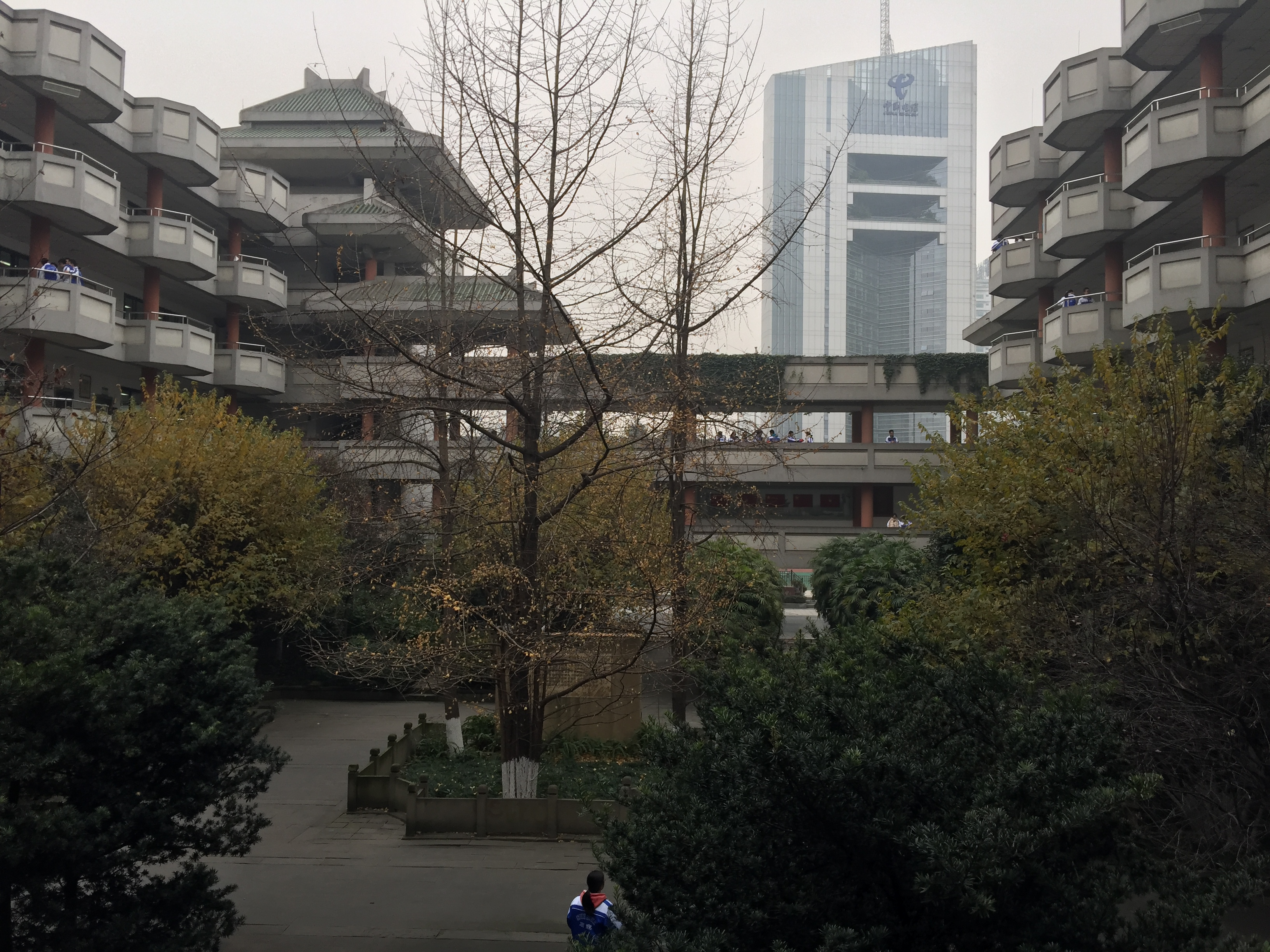 Looking south at the main courtyard in Shishi High School.